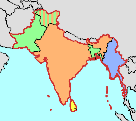 Partition_of_India_no_lang